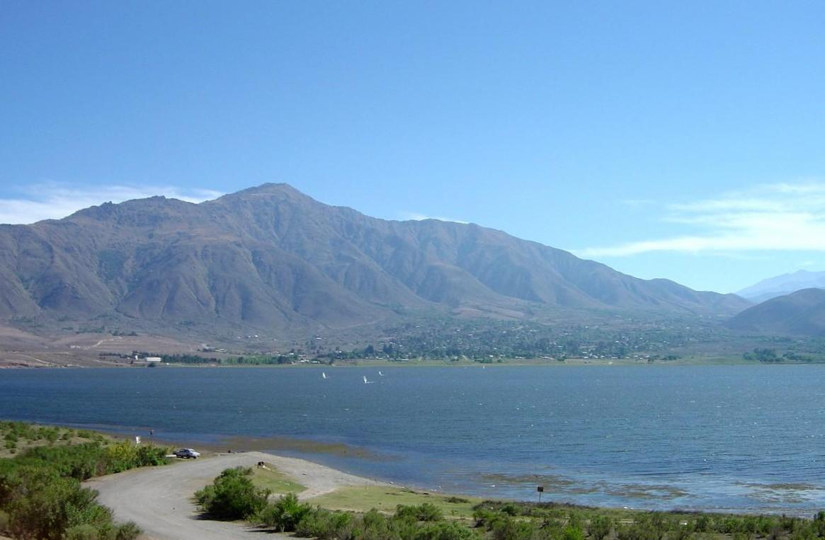 author: jlazarte image: La Angostura Lake, Tucuman Province, Argentina